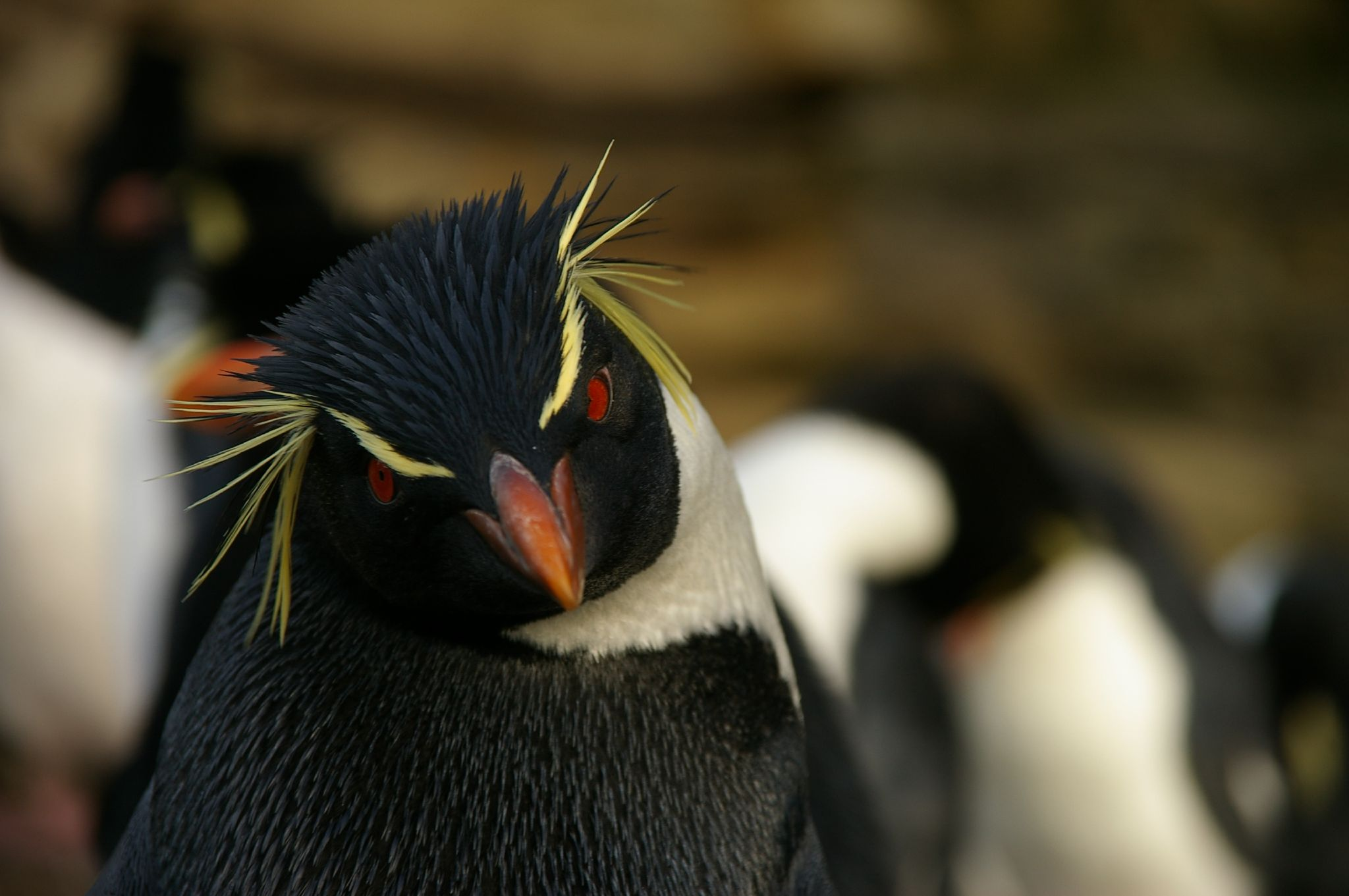 (Southern) Rockhopper Penguin (Eudyptes chrysocome), Saunders Island, Falkland Islands